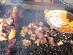 beef is cut into small pieces before it grilled